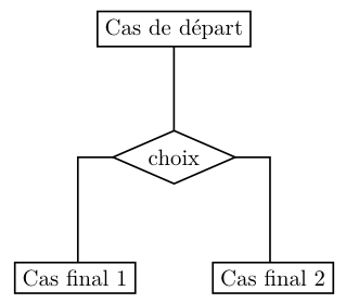 Simple organigram: exercise for LaTeX/PSTricks